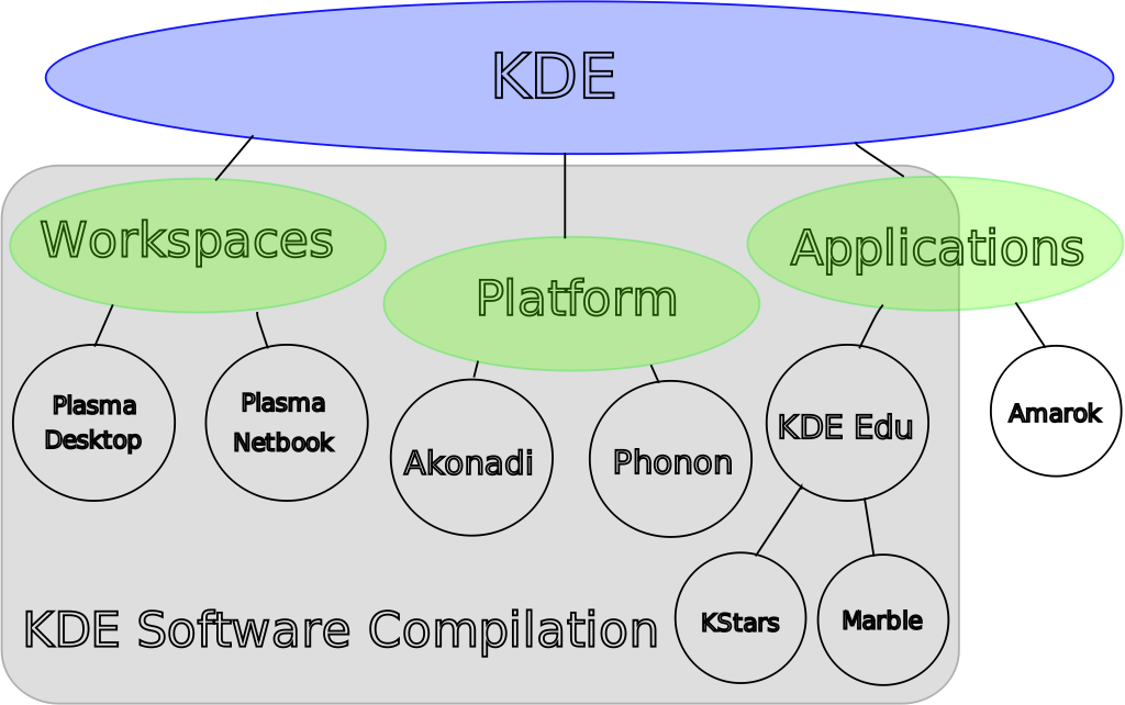 KDE brand map: description of the new KDE brands after the re-branding effort.